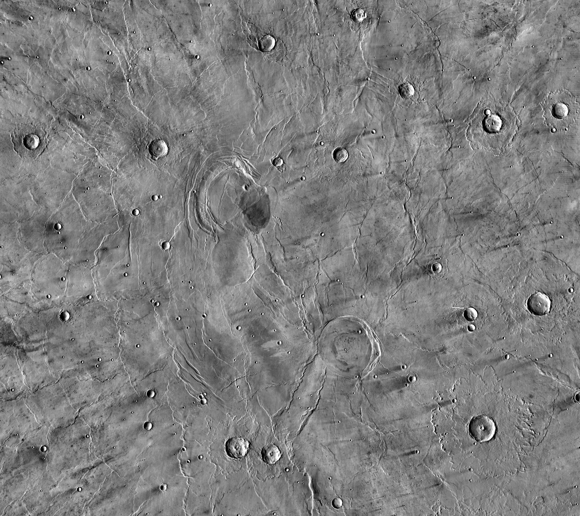 THEMIS daytime infrared image mosaic showing the central portion of the broad, low-lying shield volcano Syrtis Major Planum, just north of the equator in the eastern hemisphere of Mars. The calderas Nili Patera and Meroe Patera are visible to the upper left and lower right of center, respectively.